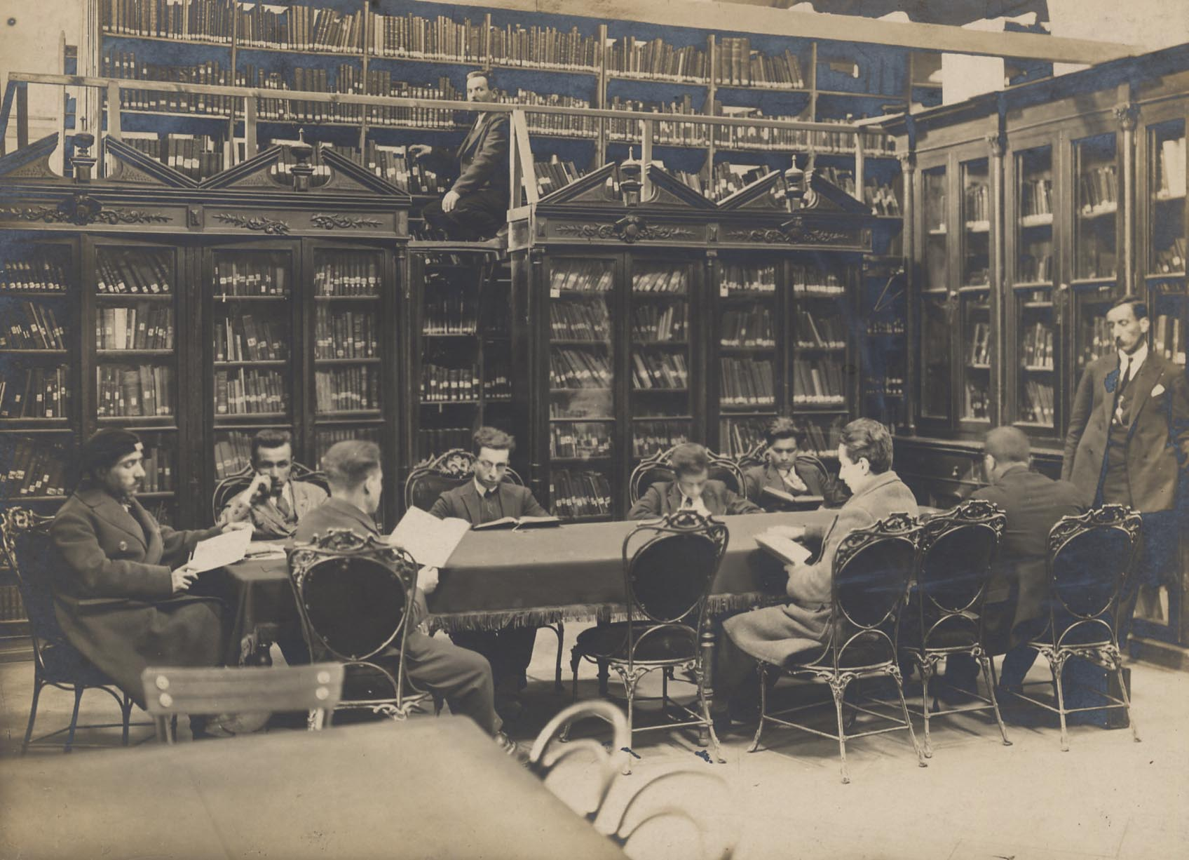 Beyazıt Devlet Kütüphanesi